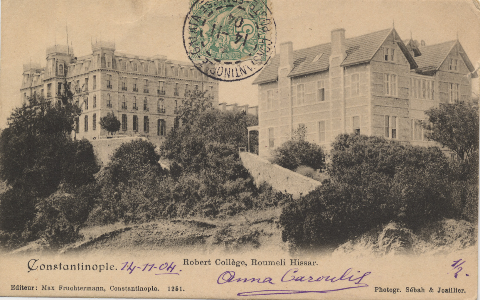 Robert College was founded in 1863 in İstanbul by Cyrus Haimlin and Christopher Robert. The school began its education program in the theology building of the American Missioners Commission. The first wing of the school was built with the same stones as those used in Rumeli Fortress and opened in 1871. The affiliated American Girls College was inaugurated in the same year in Arnavutköy and these two institutions became the first American educational institutions founded outside of the United States. In 1971, the college level of Robert College was converted to Boğaziçi University. The same year, Robert College merged with the American Girls College to continue its activities on the Arnavutköy campus. SALT Research, Photography Archive Robert Kolej 1863’te İstanbul’da açıldı. Cyrus Hamlin ve Christopher Robert tarafından kurulan okul, geçici olarak Amerikan Misyonerleri Heyeti’nin Bebek’te bulunan ilahiyat okulunun binasında eğitime başladı. Okula ait ilk bina, Rumeli Hisarı’nın yapımında kullanılan taş malzemeyle inşa edilerek 1871’de açıldı. Aynı yıl Robert Kolej ile kardeş okul olan Amerikan Kız Koleji Arnavutköy’de eğitime başladı. Bu iki kurum, ABD sınırları dışındaki ilk Amerikan okulları olarak tarihe geçti. 1971’de Robert Kolej’in yüksekokul bölümü Boğaziçi Üniversitesi’ne dönüştürüldü. Yine 1971’de Amerikan Kız Koleji ile birleşip karma eğitime geçen Robert Kolej ise, hâlen Arnavutköy kampüsünde eğitime devam etmektedir. SALT Araştırma, Fotoğraf Arşivi